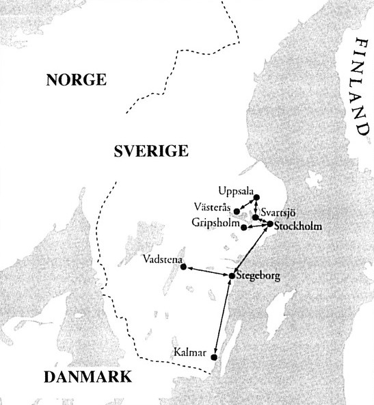 Map of royal journeys